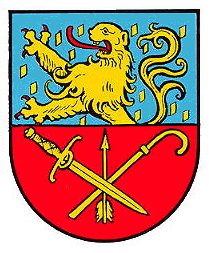 Coat of arms of Sippersfeld